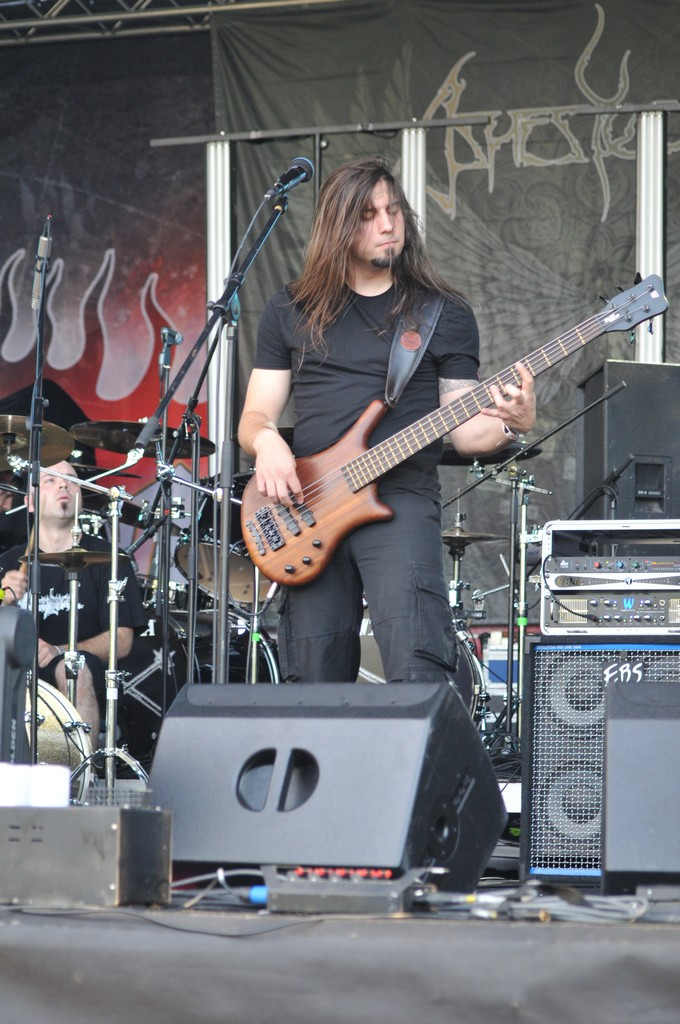 Luka Petrović of Ashes You Leave at the 2009 INmusic festival in Zagreb, Croatia.